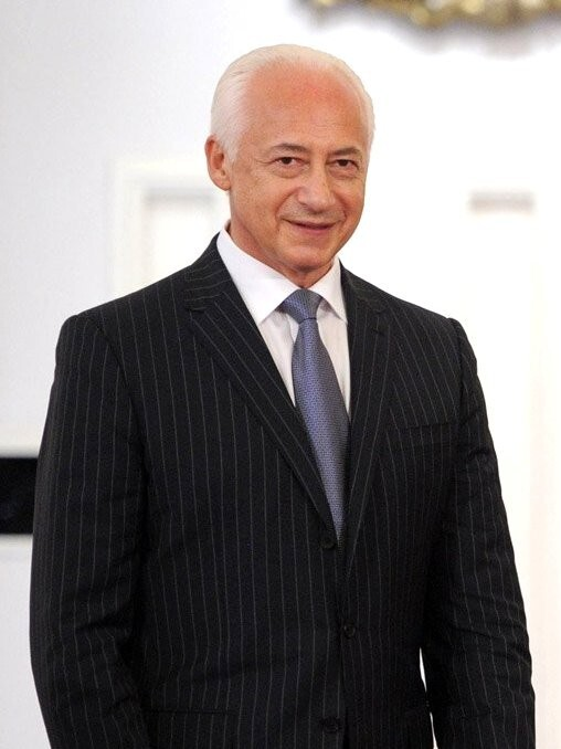 Vladimir Spivakov 2012